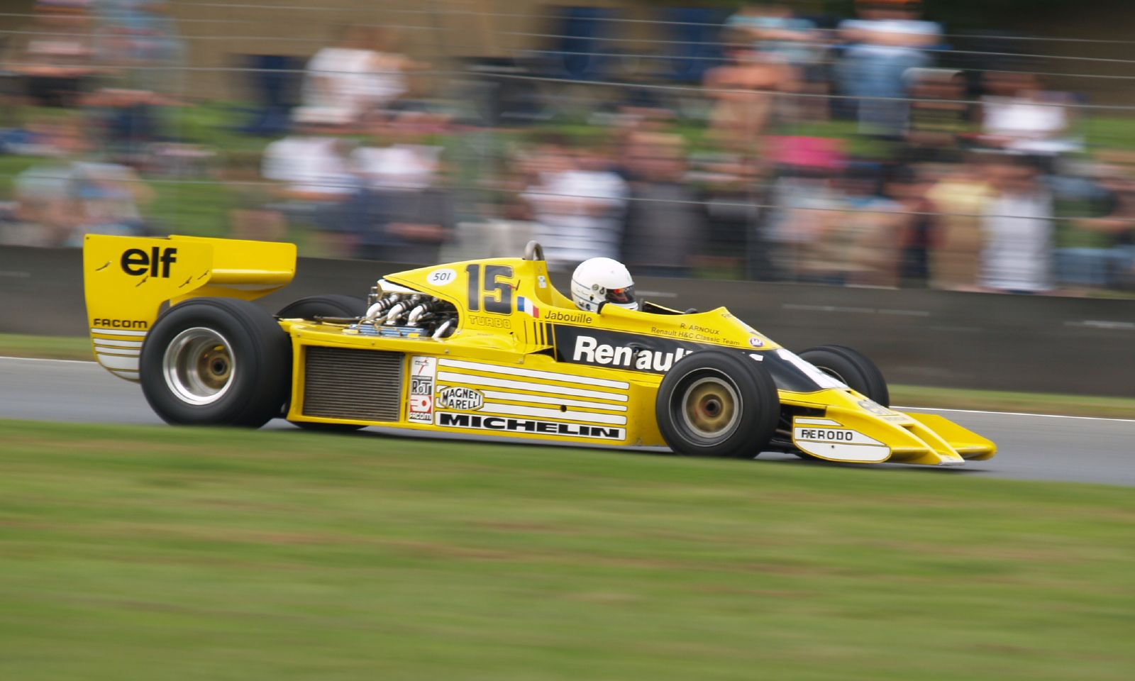 An ex-Jean-Pierre Jabouille Renault RS01 Formula One car, being driven by Jabouille's sometime team mate Rene Arnoux. At the World Series by Renault event, Donington Park, September 2007.